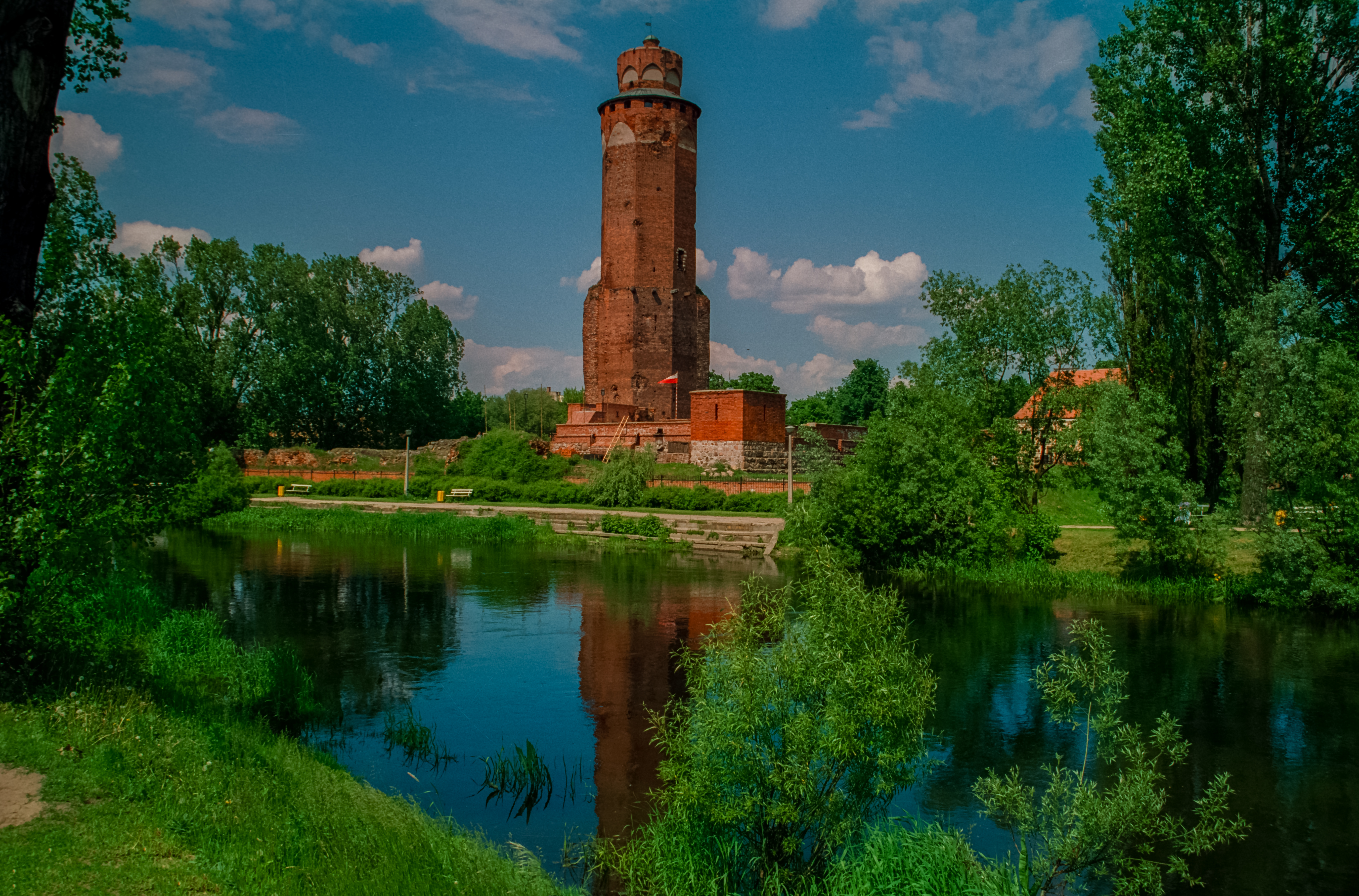 Poland, Brodnica Castle